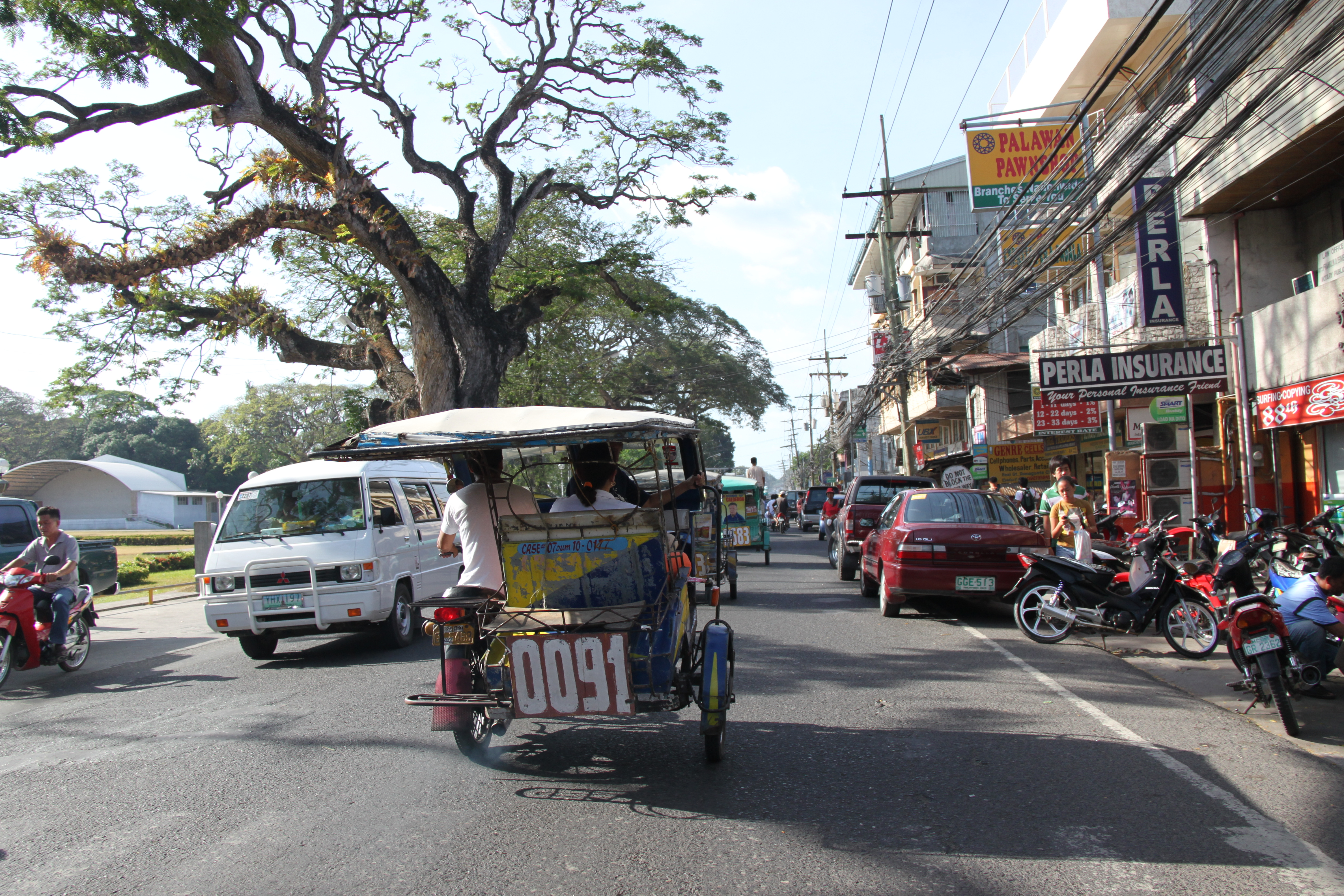 Dumaguete, Negros Oriental, Philippines